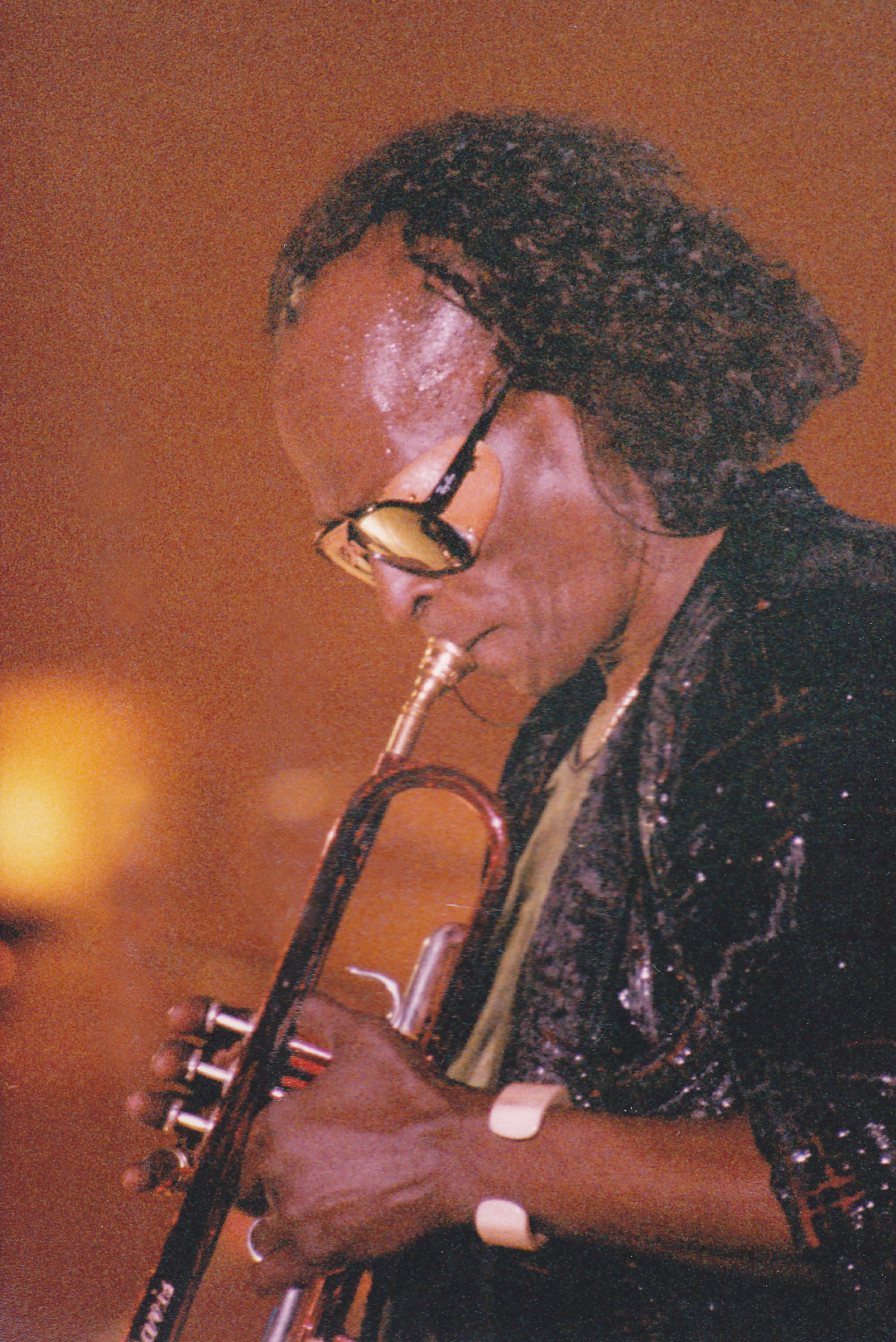 Miles Davis in Strasbourg profile